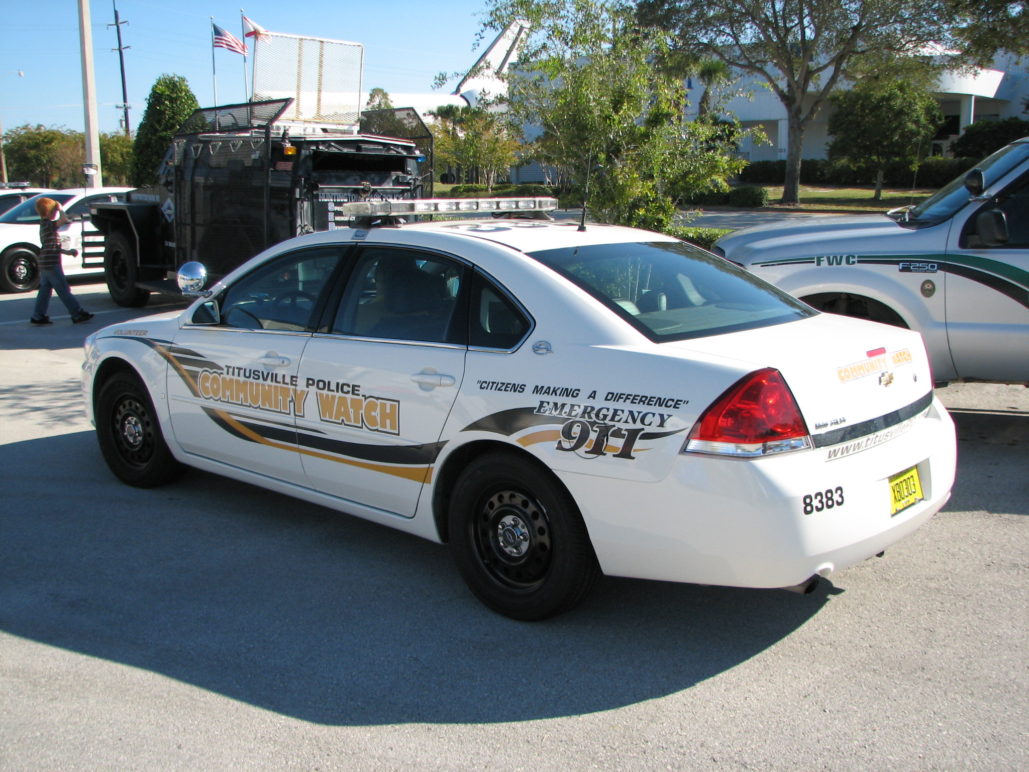 Police